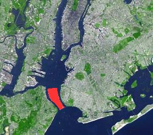 The Narrows, New York. Based on original public domain image courtesy of NASA (TERRA satellite)